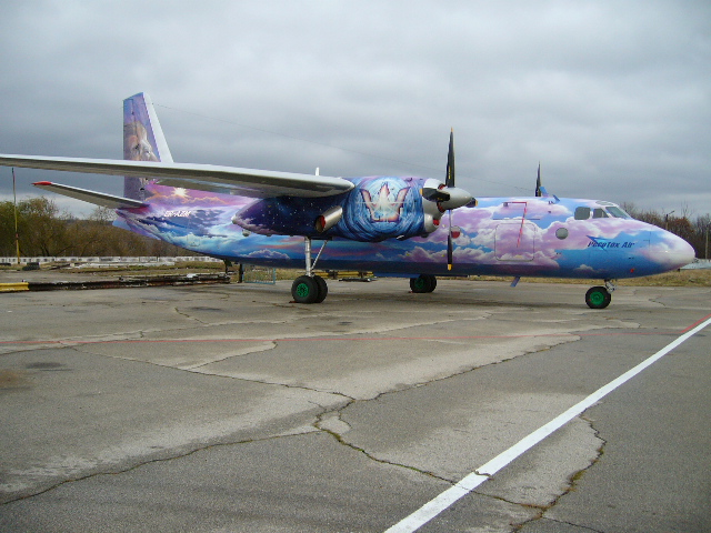 Antonov An-24 of Pecotox Air